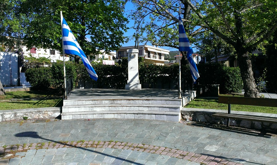 stamata